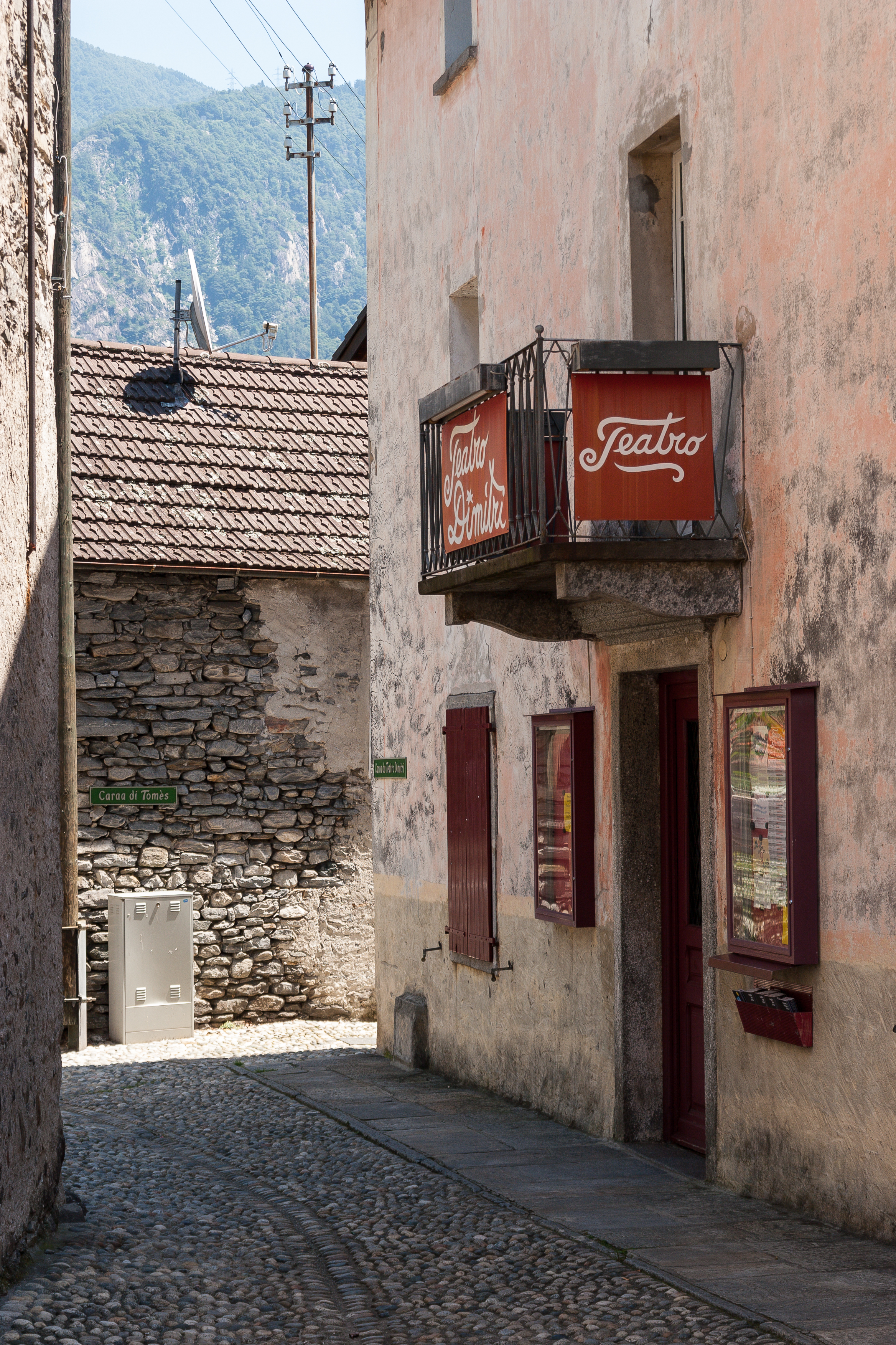 Teatro Dimitri in Verscio, Ticino, Switzerland (2010)